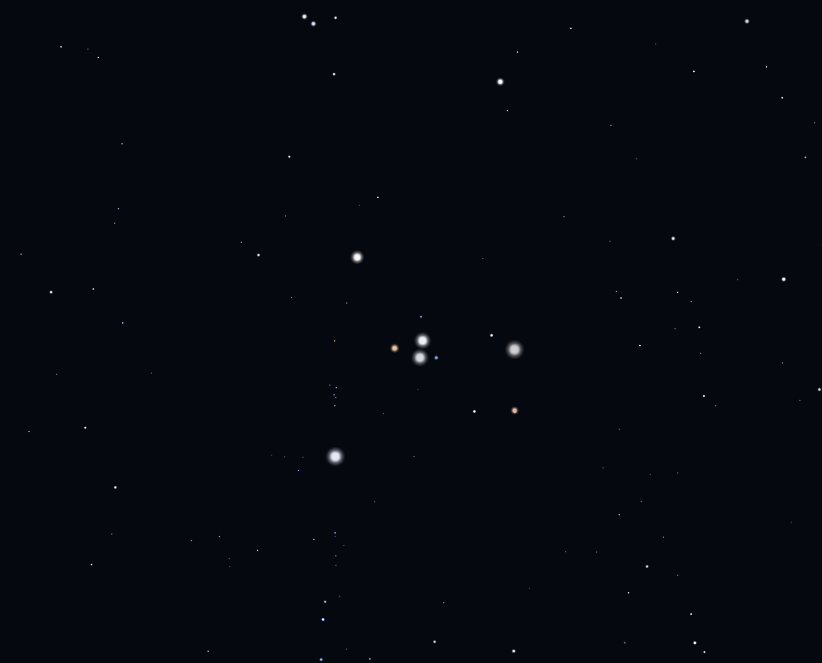 Stargate asterism in Corvus constellation, taken from Stellarium.